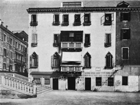 Casa Molina, Petrarch's Venetian house in the XIV century.